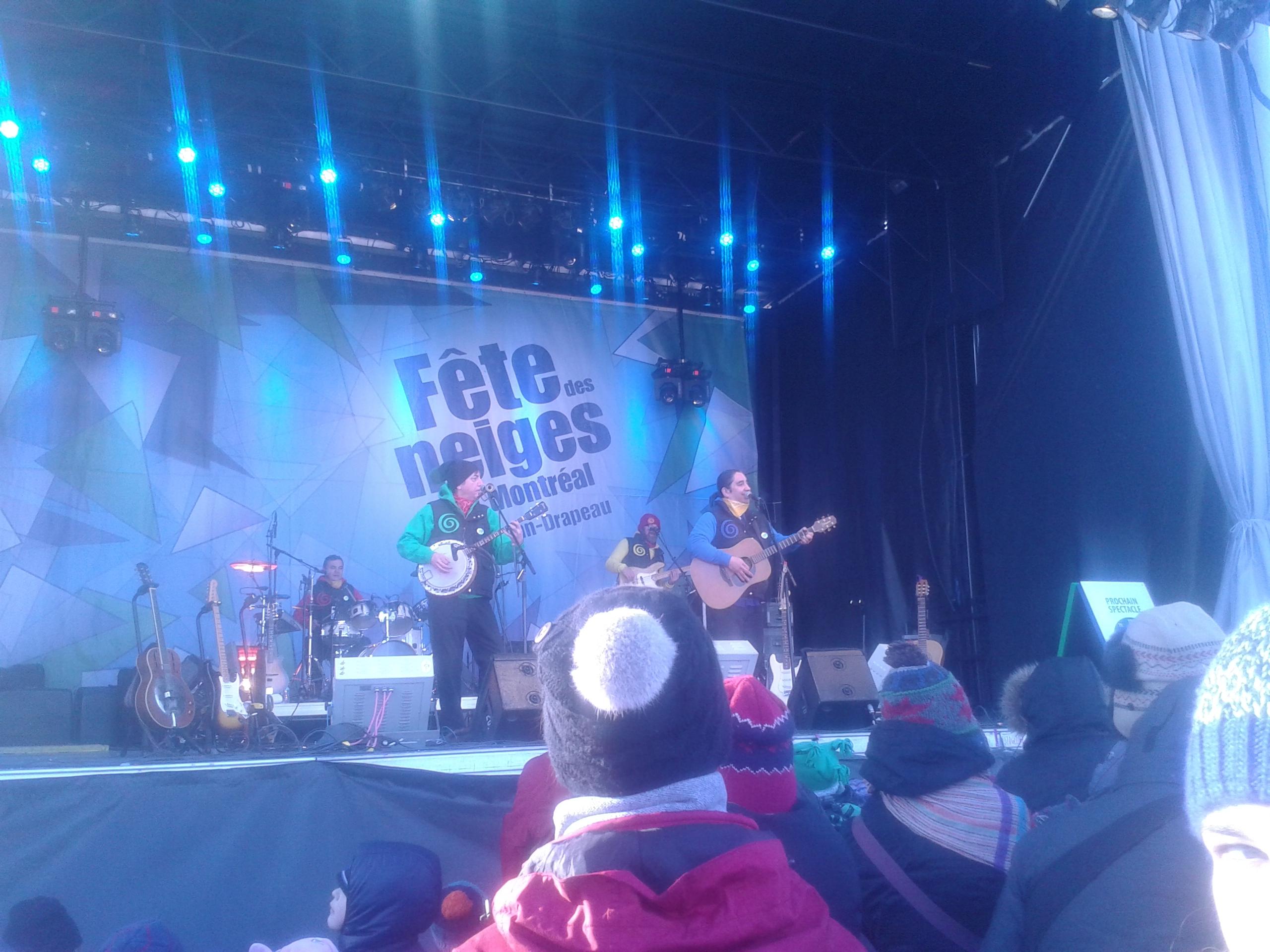 Les Petites Tounes photographed in Montreal, Quebec, Canada at the 2015 Fête des neiges winter carnival.